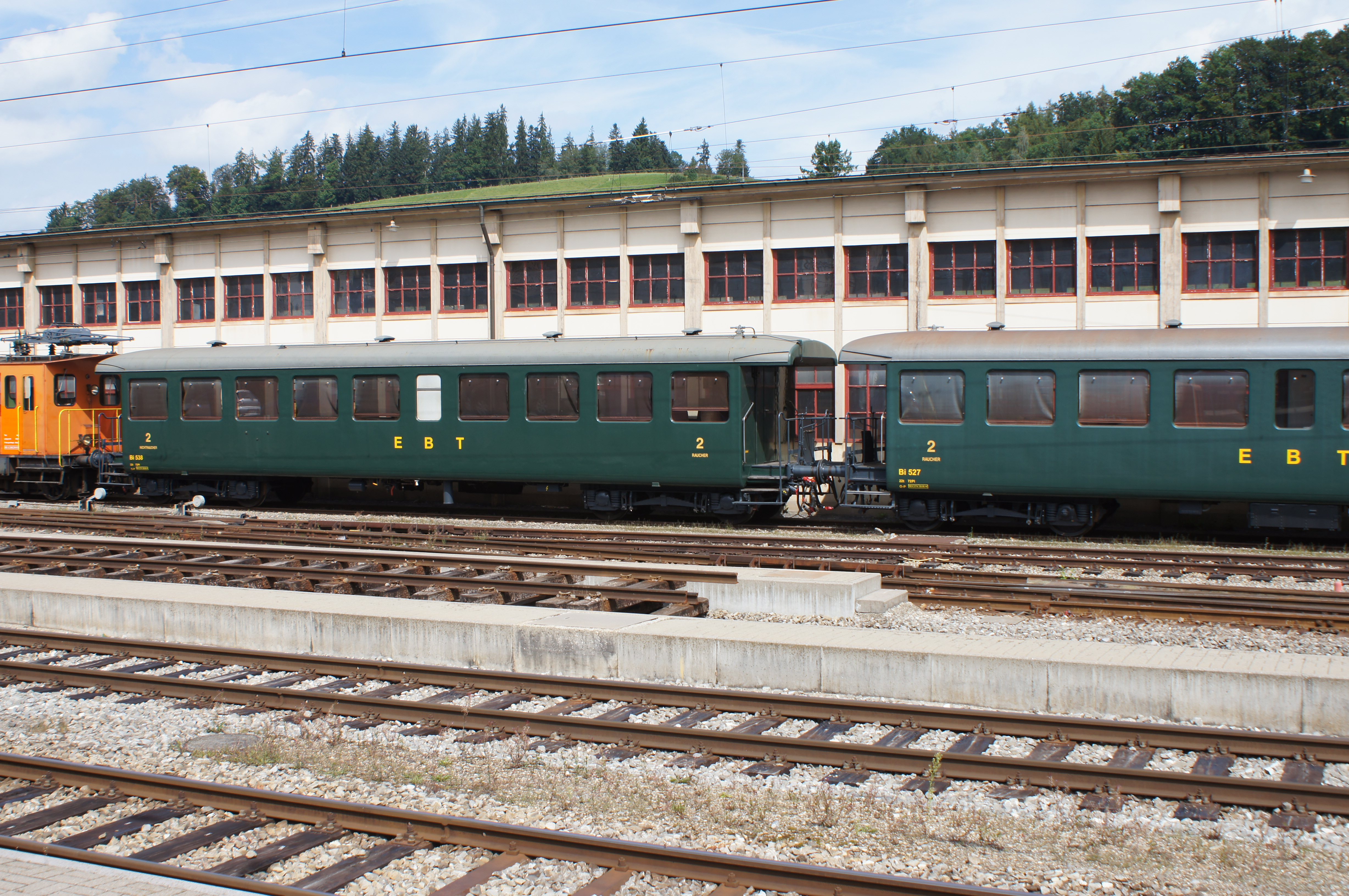 EBT Bi 538 and 527 in front of Huttwil depot